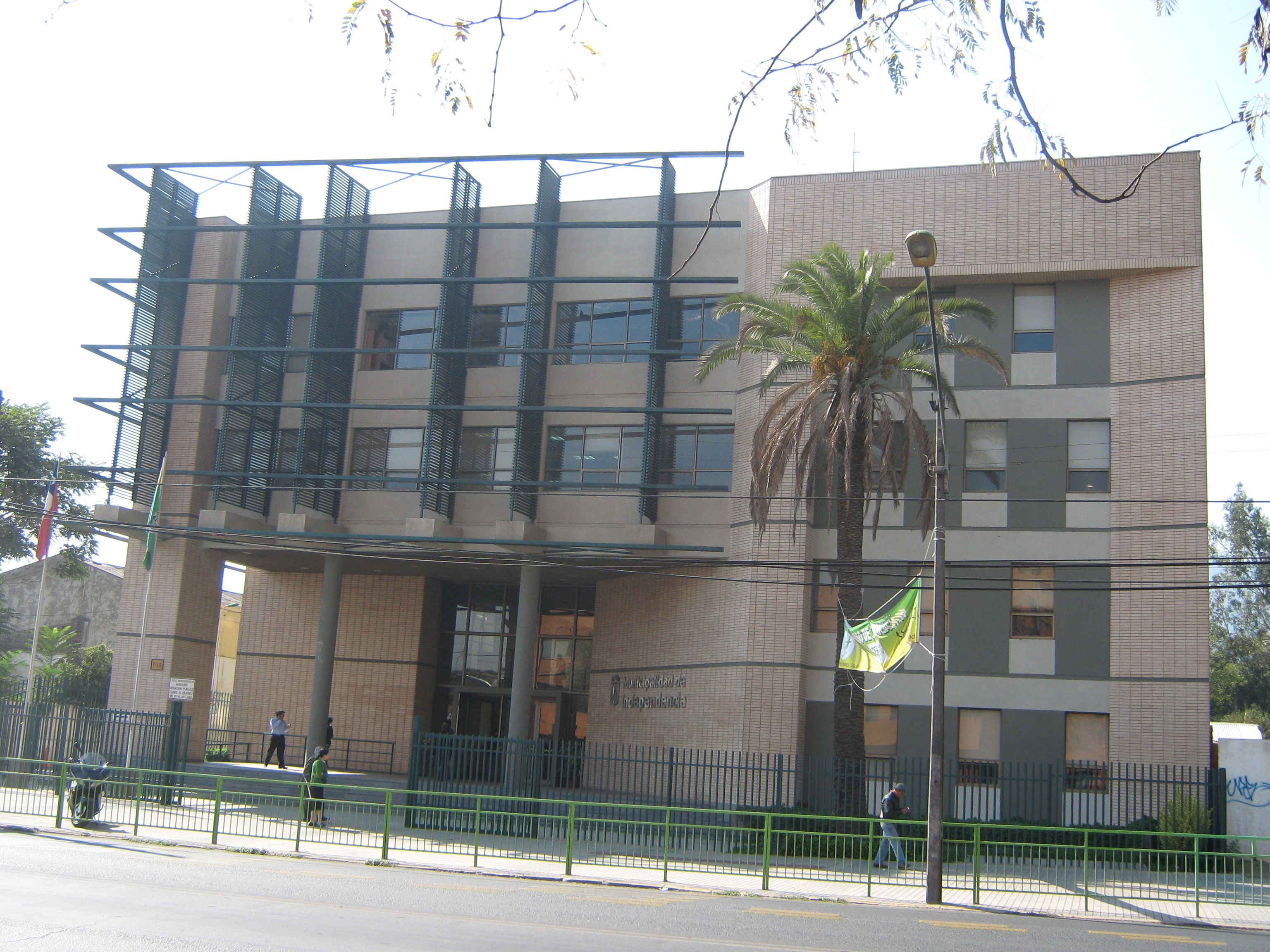 Mayor Office Independencia